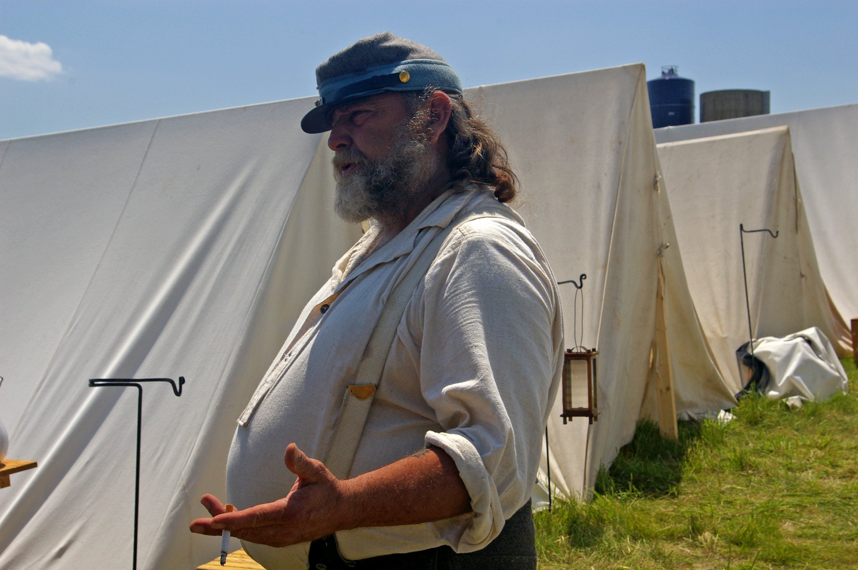 An American Civil War reenactor (Jerry Draper) talks about typical army life in a field camp.